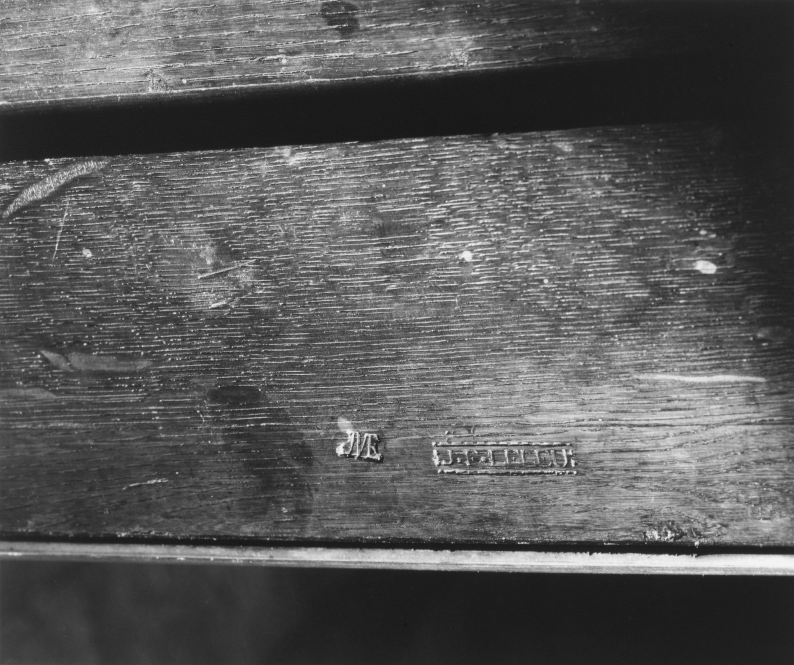 French; Writing table; Woodwork-Furniture